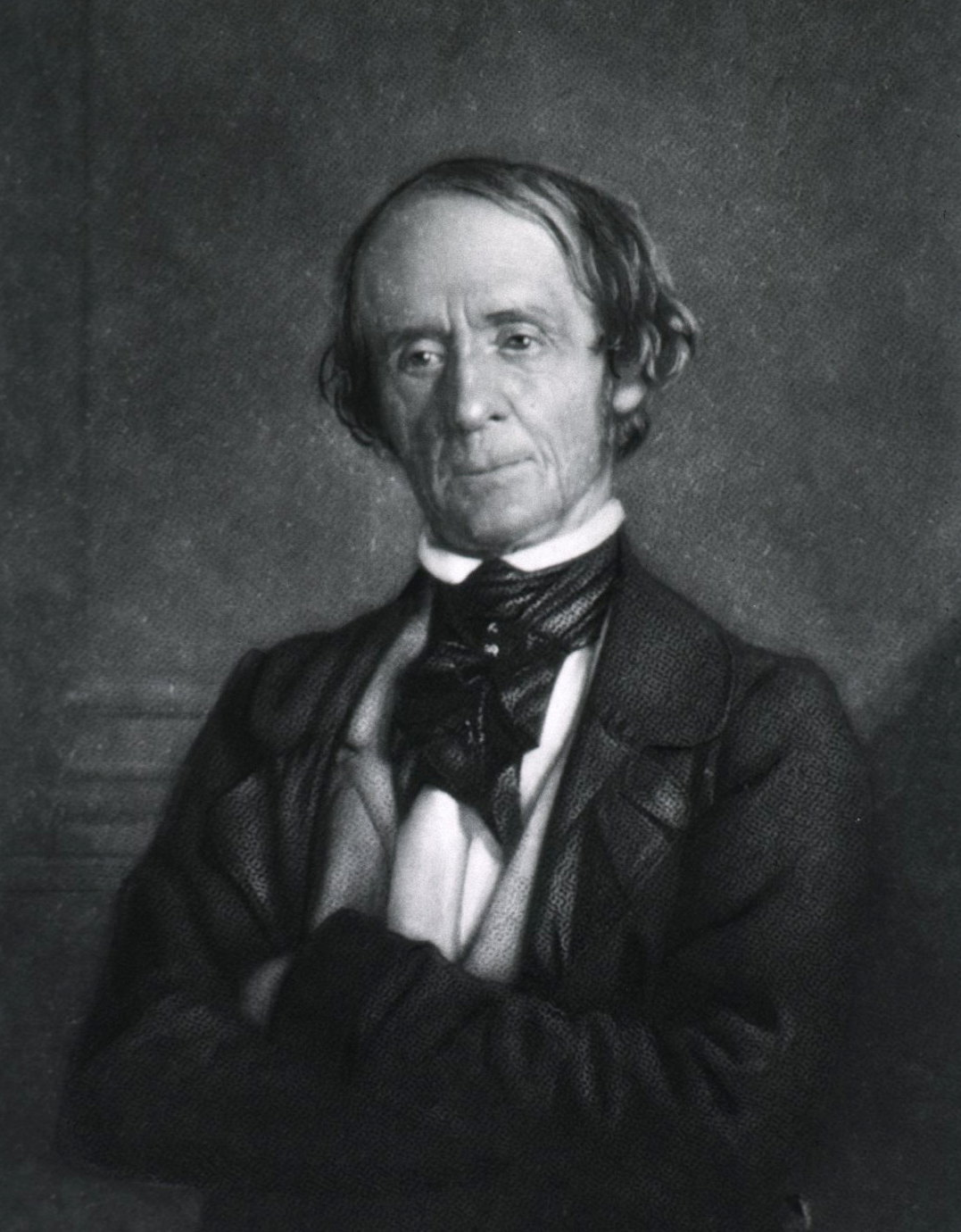 Charles D. Meigs (1792-1869), American obstetrician, engraved by Thomas B. Welch (1814–1874) DescriptionAmerican engraver and painterDate of birth/death 1814 1874Location of birth/death Charleston ParisAuthority control : Q28738402 VIAF: 95862510 ISNI: 0000 0000 8402 5512 ULAN: 500029306 LCCN: nr93007174 BNE: XX1526203 WorldCat creator QS:P170,Q28738402 and Adam B. Walter (1820-1875) from a daguerreotype by M.P. Simons.